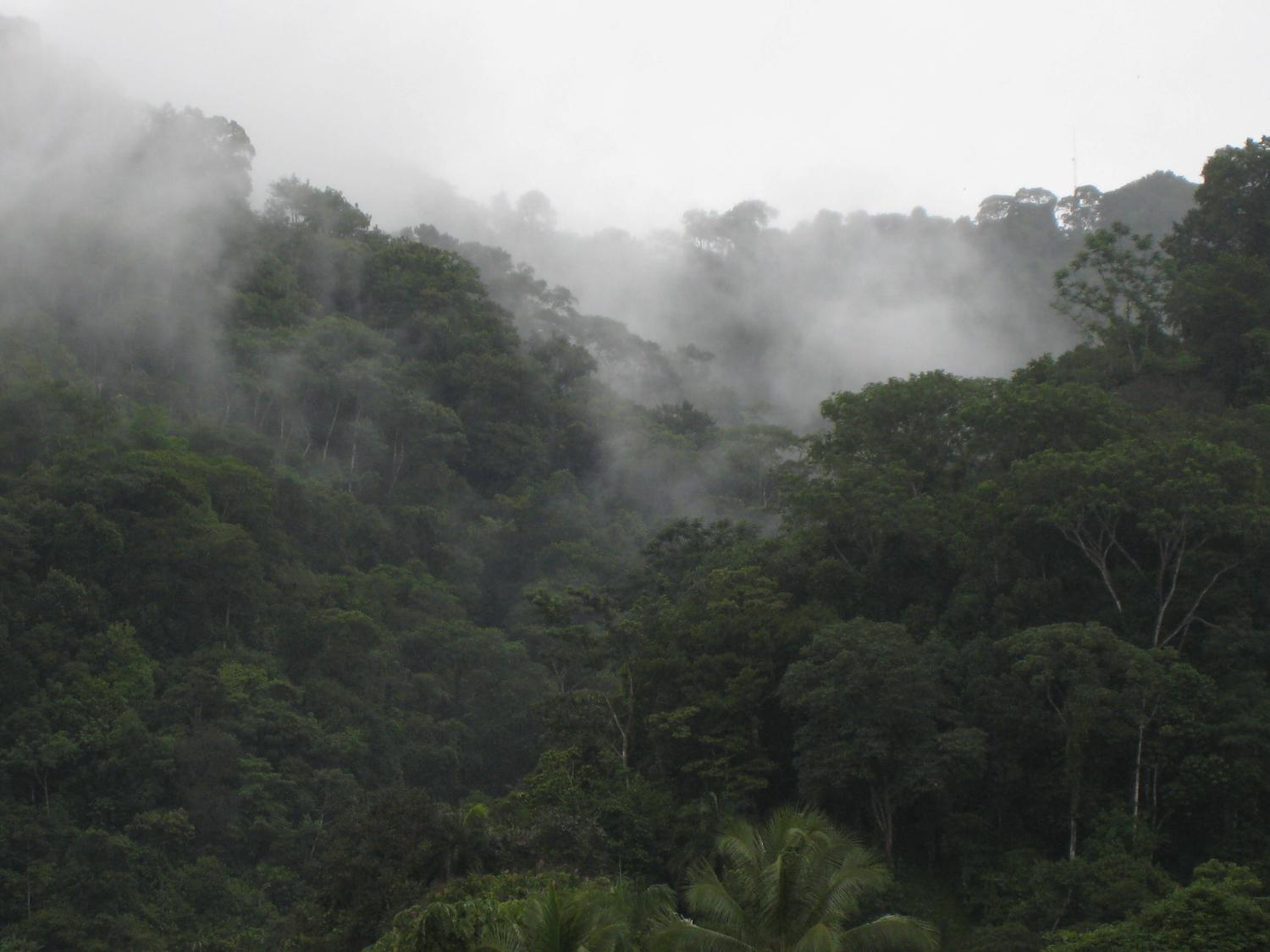 Mist rising over the rainforest near Gulfito on the Pacific coast near the border of Panama. This region is one of the wettest spots in the world.